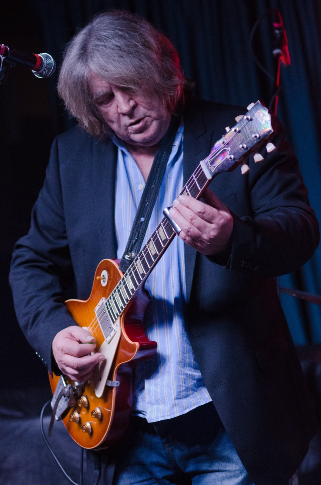 Mick Taylor, Iridium NYC, May 9, 2012